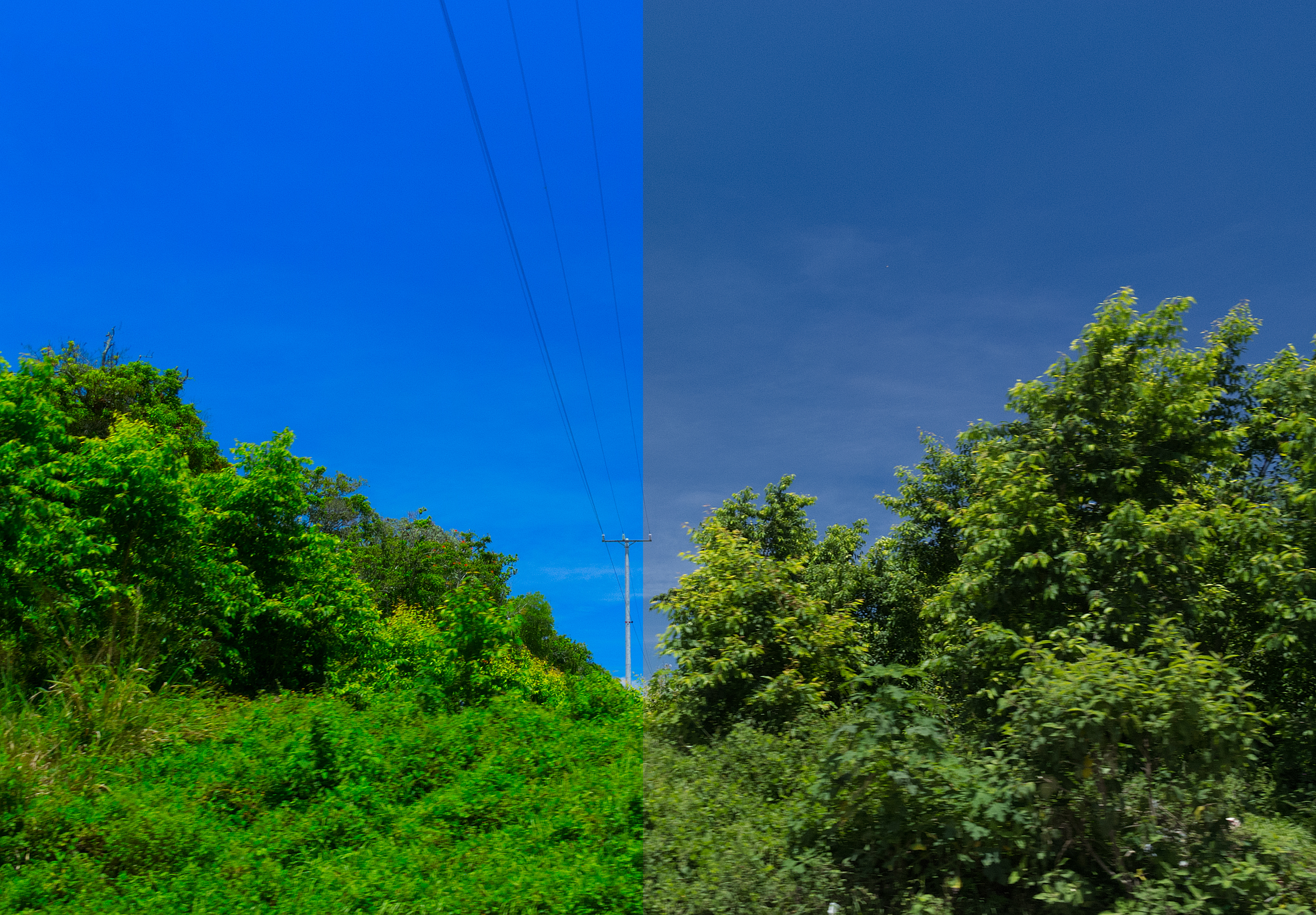 An example of color enhancement using LAB colorspace in Photoshop (CIELAB D50). Left side is enhanced, right side is not. Enhancement is "overdone" to show the effect better.